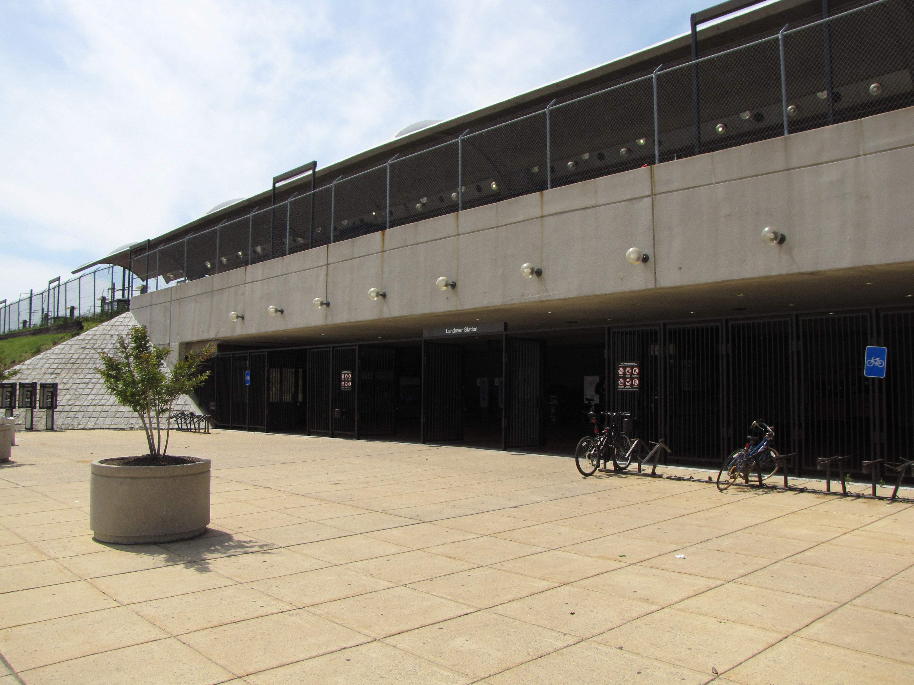 Exterior of Landover station, in Prince George's County, Maryland. Landover station is part of the Washington Metro's Orange Line.